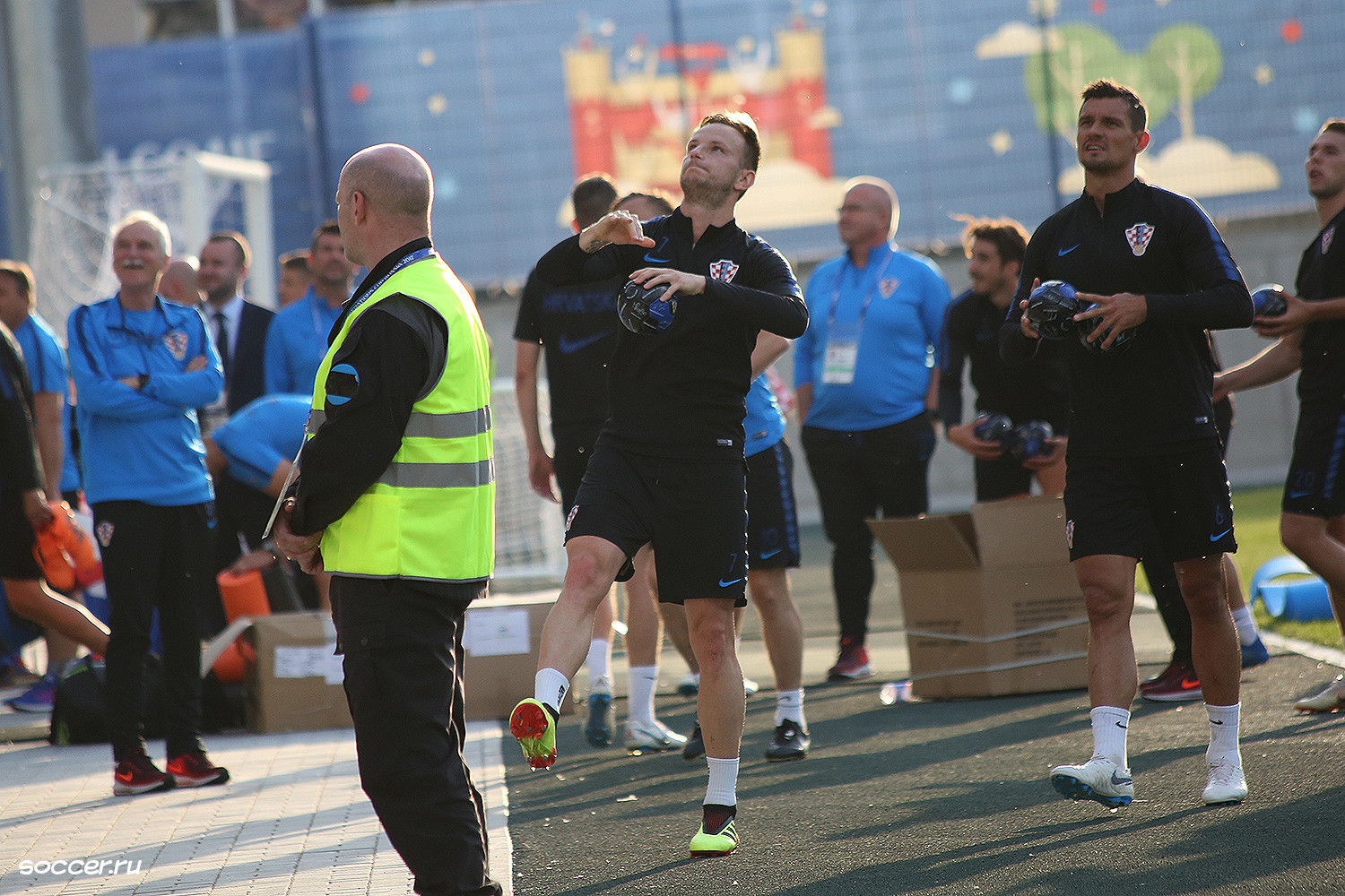 Ivan Rakitić and Dejan Lovren during a Croatia training session, in June 2018.